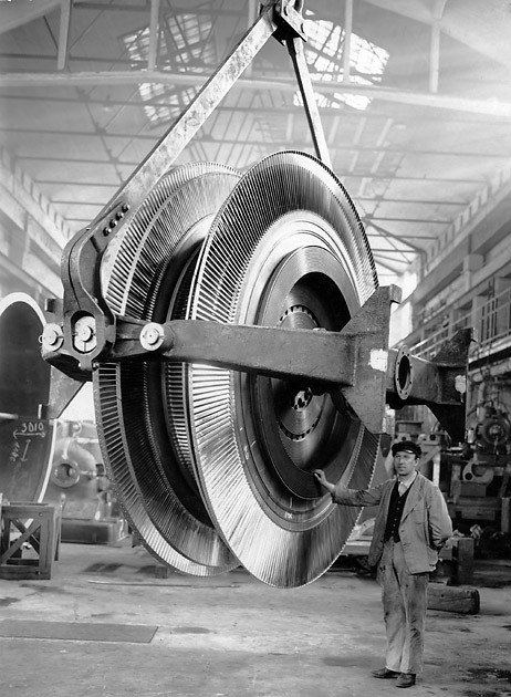 The turbine rotor for Ljungström steam turbine 50 MW electric generator. Radial turbine wheels combined with axial turbine wheels at each end of the shaft.